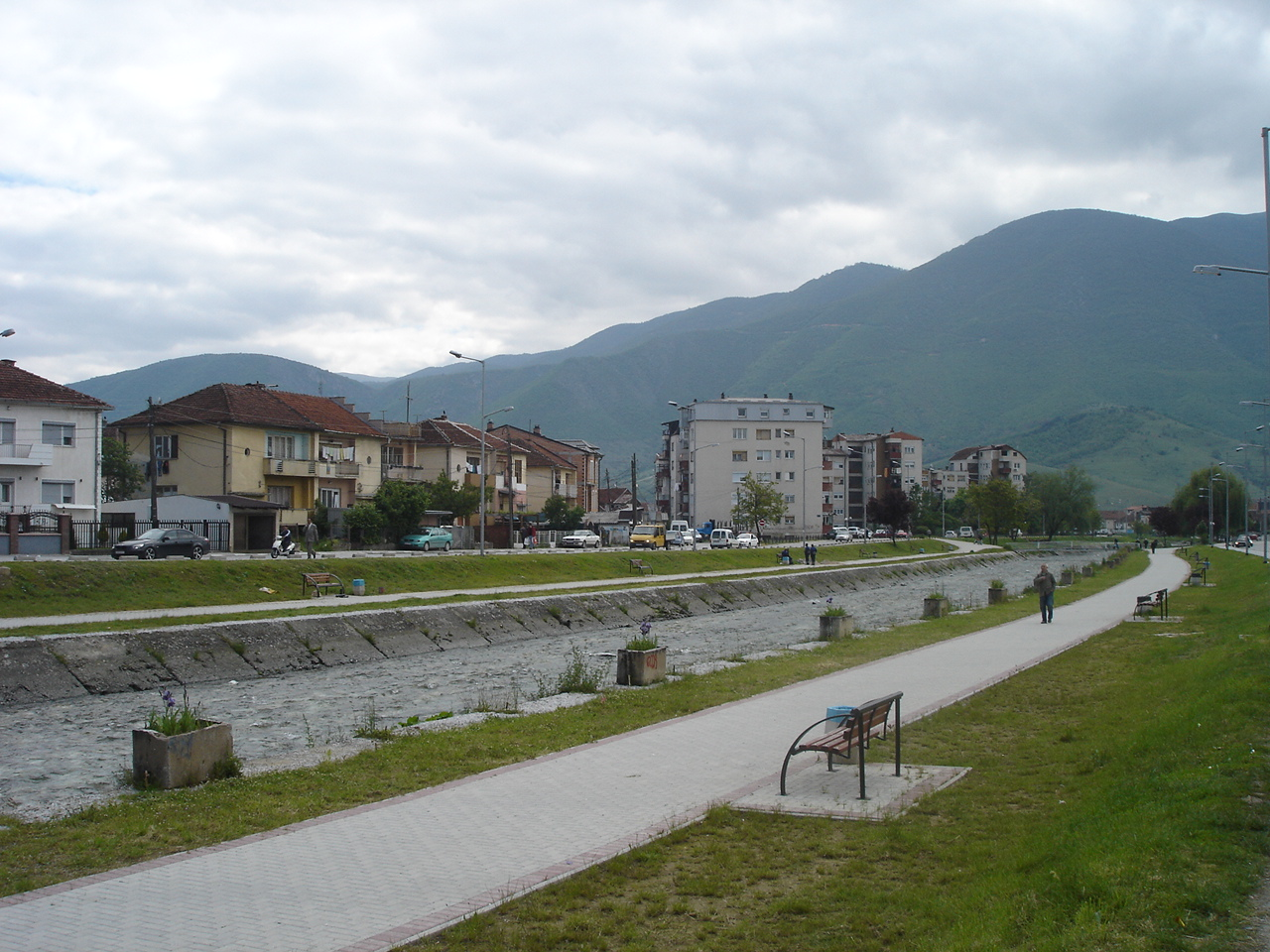 Kay of river Vardar in Gostivar, Macedonia